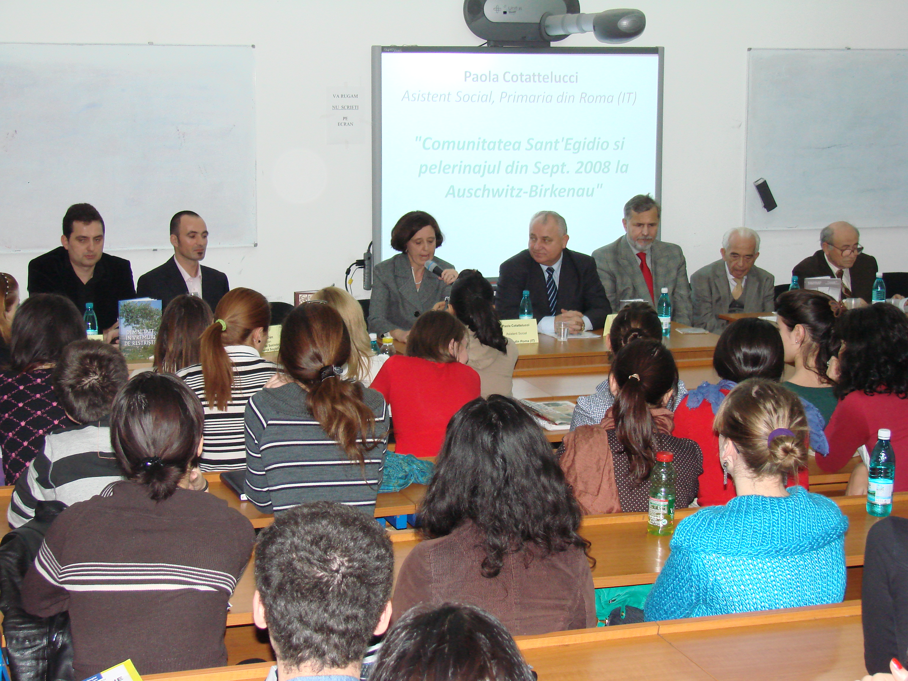 Holocaust debate with Doru Buzducea, Adrian Dan and special guests